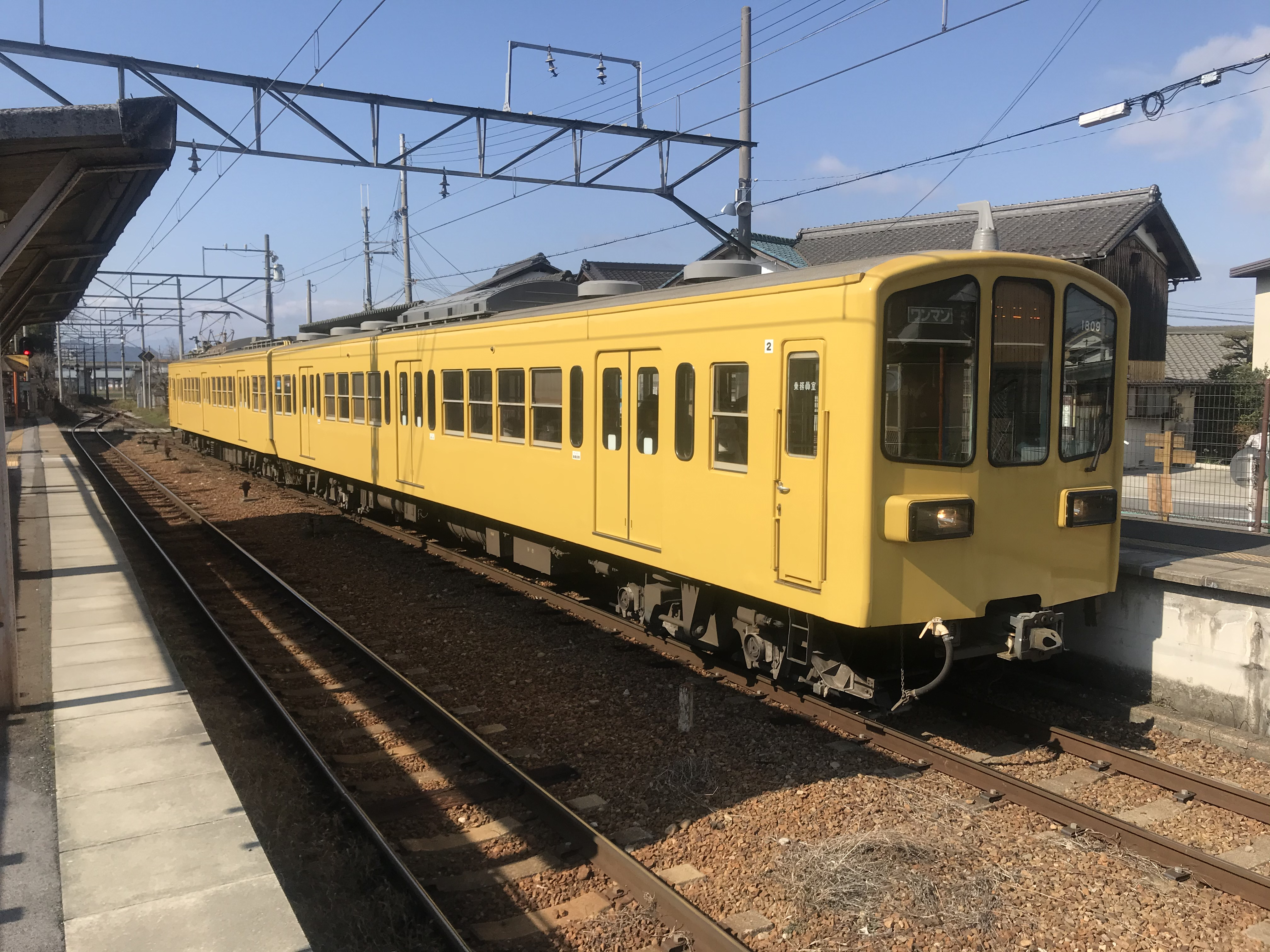 Ohmi Railway MOHA(Driving Motor car) 1809 at Musa station